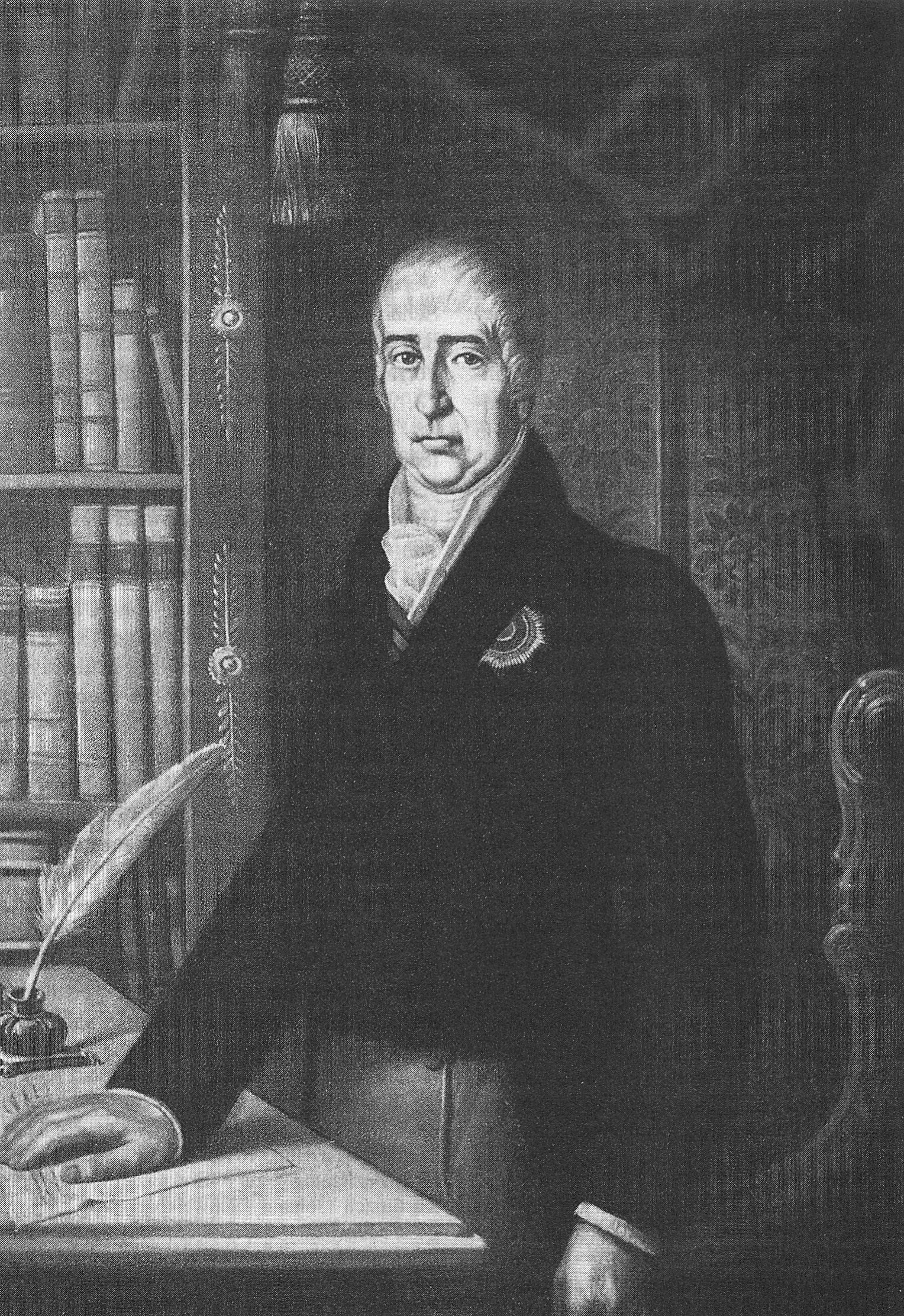 Joseph Thaddäus von Sumerau last govenor of Further Austria